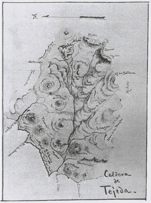 Drawing by Víctor Grau-Bassas (1847-1918). Caldera de Tejeda, Grand Canary, Canary islands, Spain. At the bottom (west side): barranco de la Aldea (the valley that crosses the area from top to bottom (east to west) and reaches the sea just south of the Punta de la Aldea near El Lomo), with to its left (N-W side) Punta de las Arenas. Towards the upper left corner (north-east): Artenara. Top (east): Tejeda, with (Roque) Nublo to its upper right.